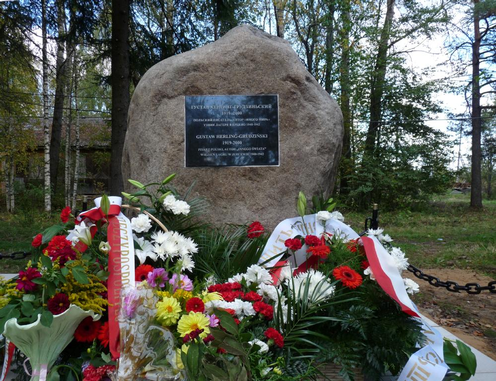 A monument to writer Gustaw Herling-Grudziński unveiled in September 2009 in Yertsevo, where he had been imprisoned for 2 years in a labor camp. Herling-Grudziński is best known for writing a personal account of life in the Soviet Gulag entitled A World Apart, first published in 1951 in London.